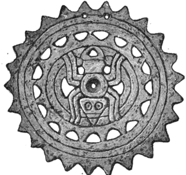 Ancient shell gorget, depicting a spider, obtained from a mound on Fain's Island, Tennessee.